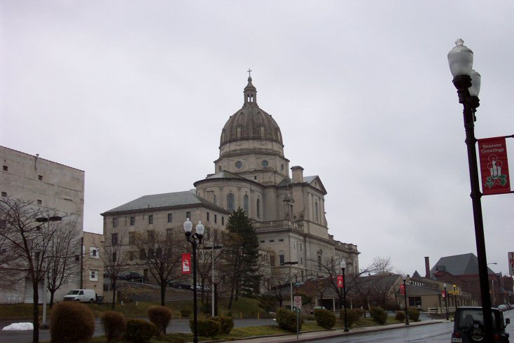 Cathedral of the Blessed Sacrament, in downtown Altoona, Pennsylvania